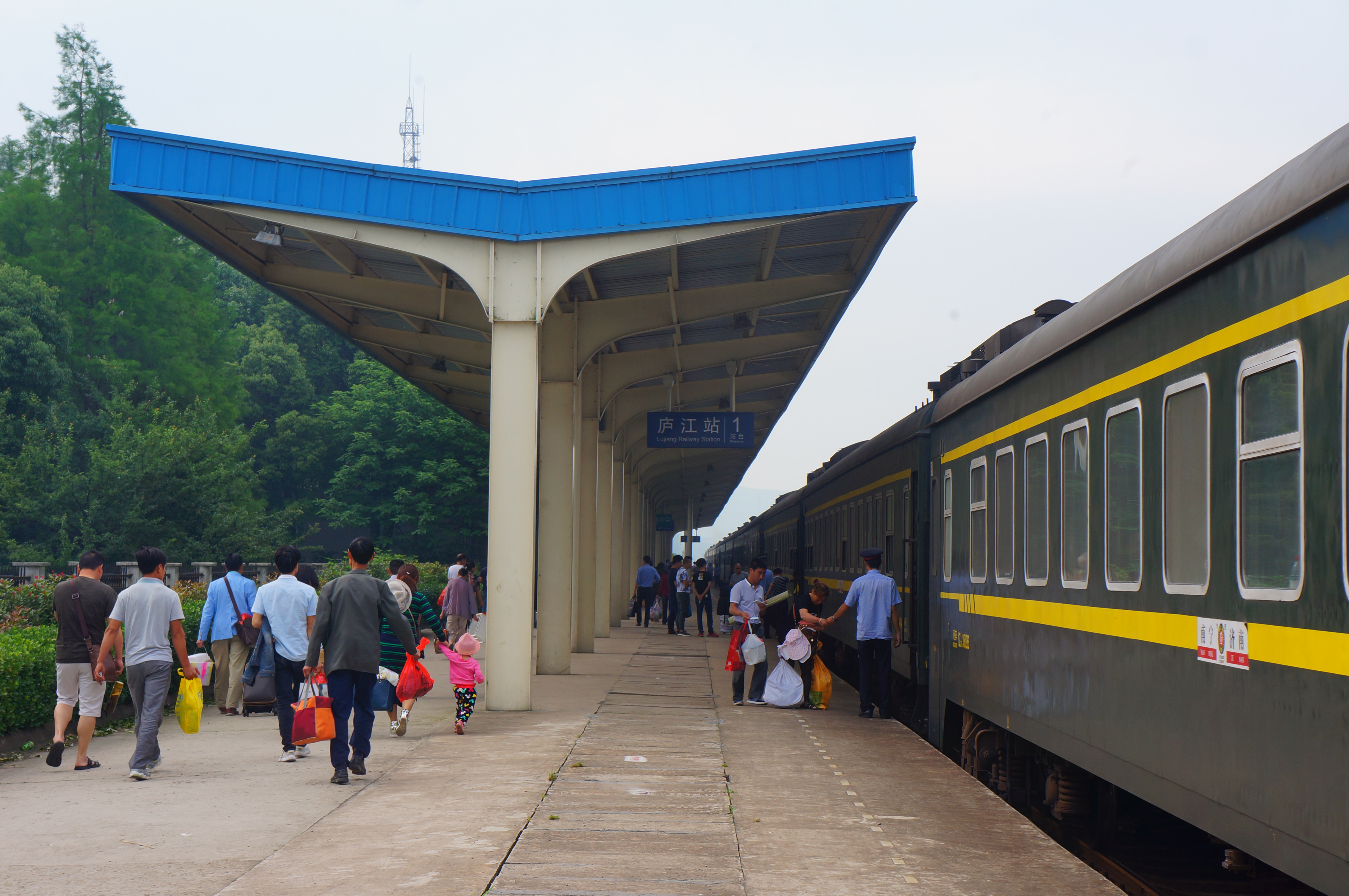 201705 Platform 1 of Lujiang Station. We have to wait until K1030 (Dongguandong to Hefei) enters into the station